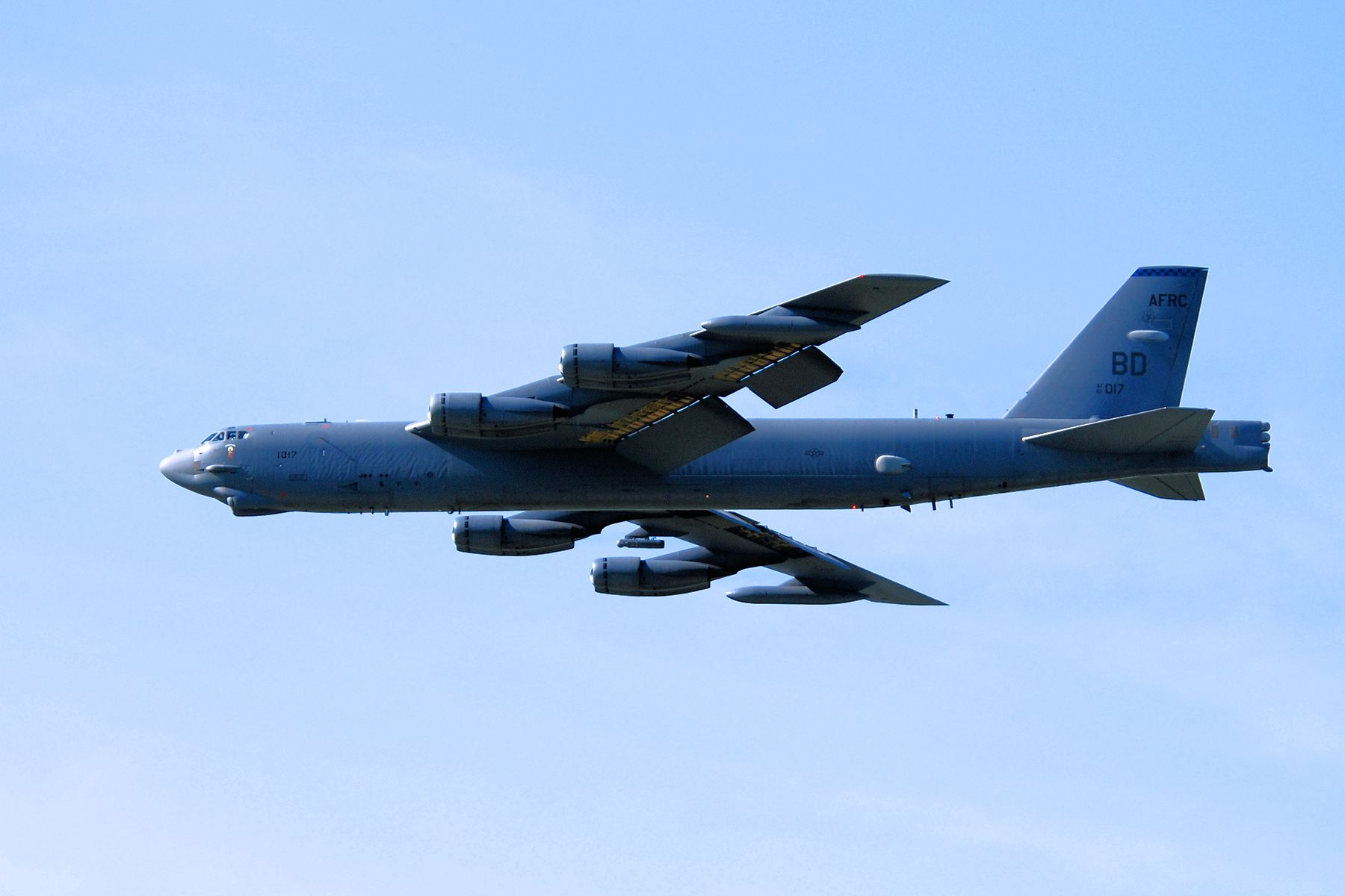 A 917th Wing B-52H Stratofortress, takes off from the Leoš Janáček Airport, Ostrava, Czech Republic, Sept. 19, 2010. The B-52 was part in the 10th Annual NATO Days in Ostrava air show on from Sept 15-19, 2010. The 917th Wing deployed personnel and a bomber to Ostrava, in support of the air show, which is the largest air, army and security show in Central Europe. This marked the first time ever a B-52 bomber has visited the Czech Republic. The 917th Wing is located at Barksdale Air Force Base, La. (U.S. Air Force photo/Master Sgt. Greg Steele